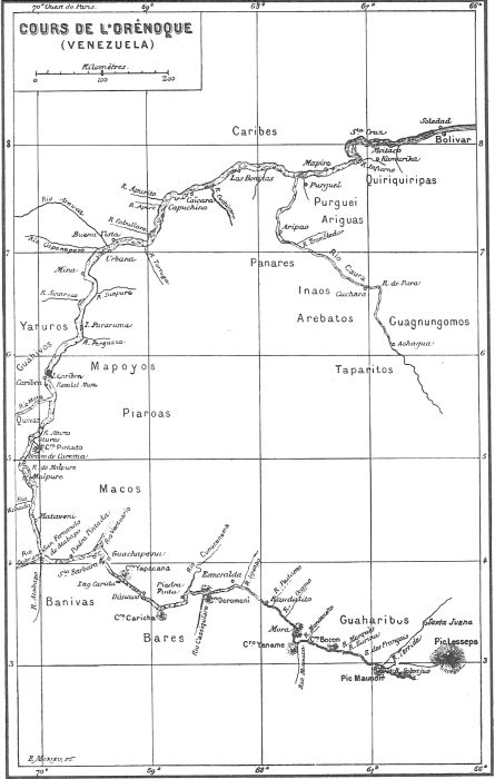 An illustration from the novel "The Mighty Orinoco" by Jules Verne drawn by George Roux.